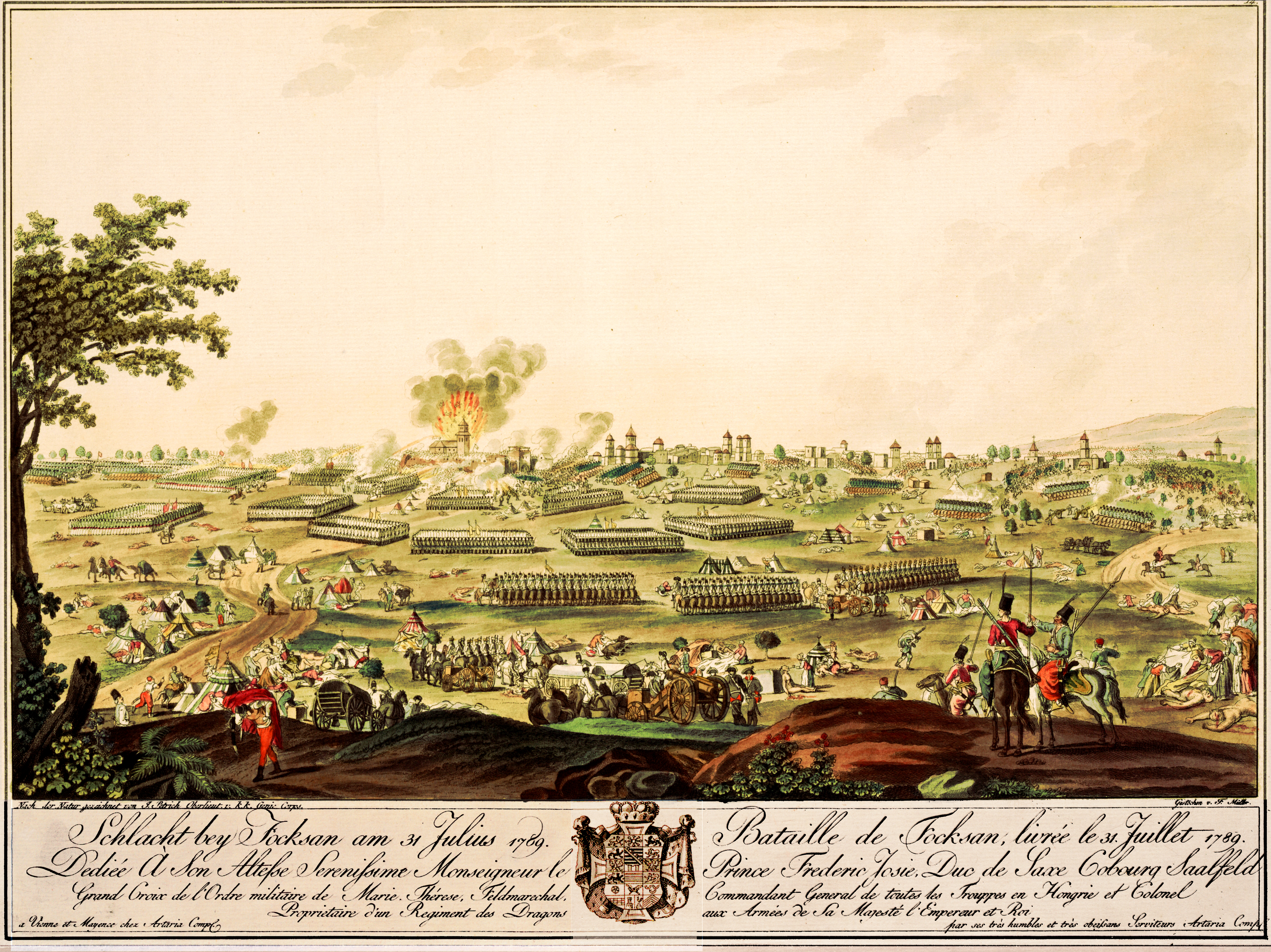 Battle of Focşani. 1789